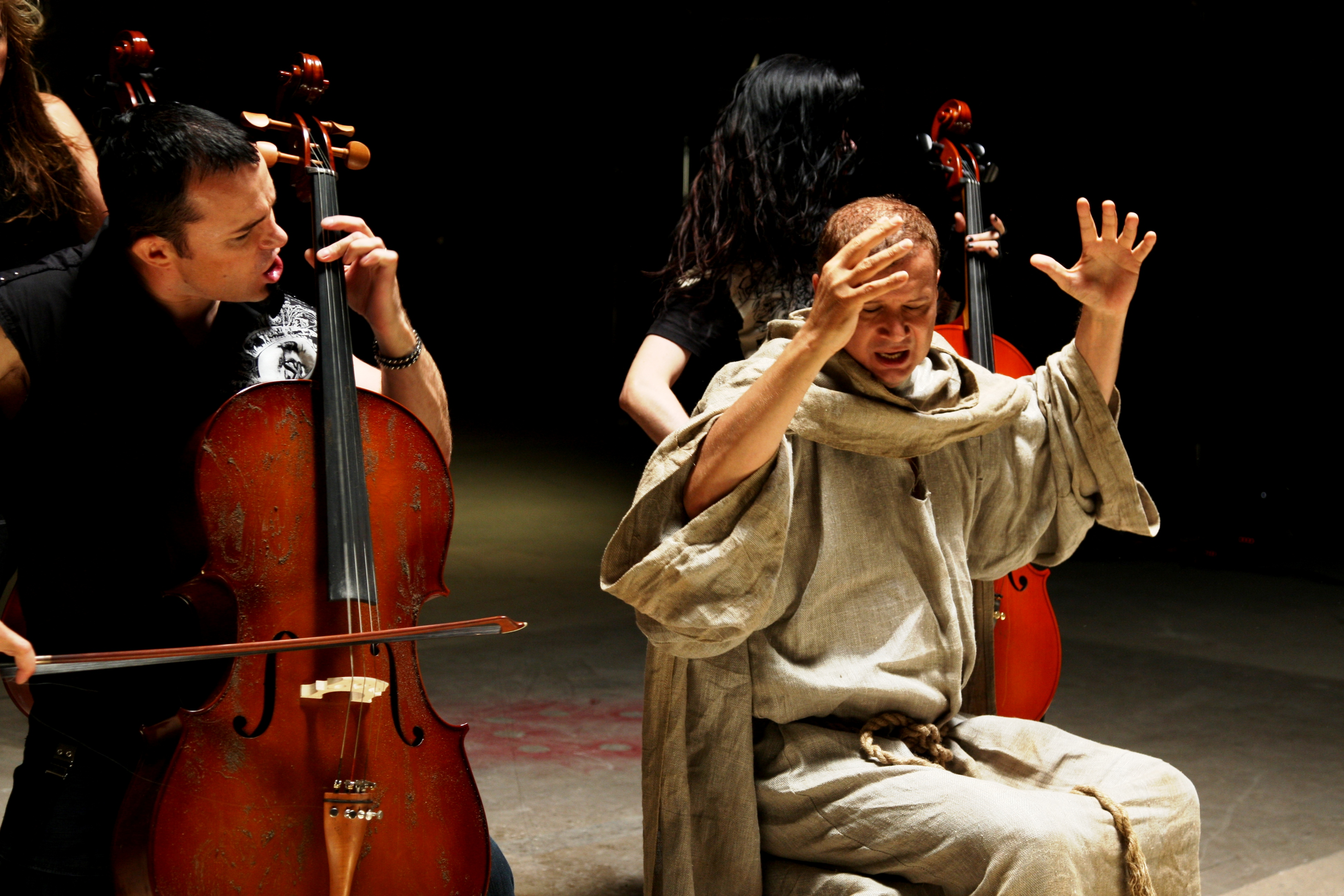 Andrey Kovalyov with Apocalyptica band